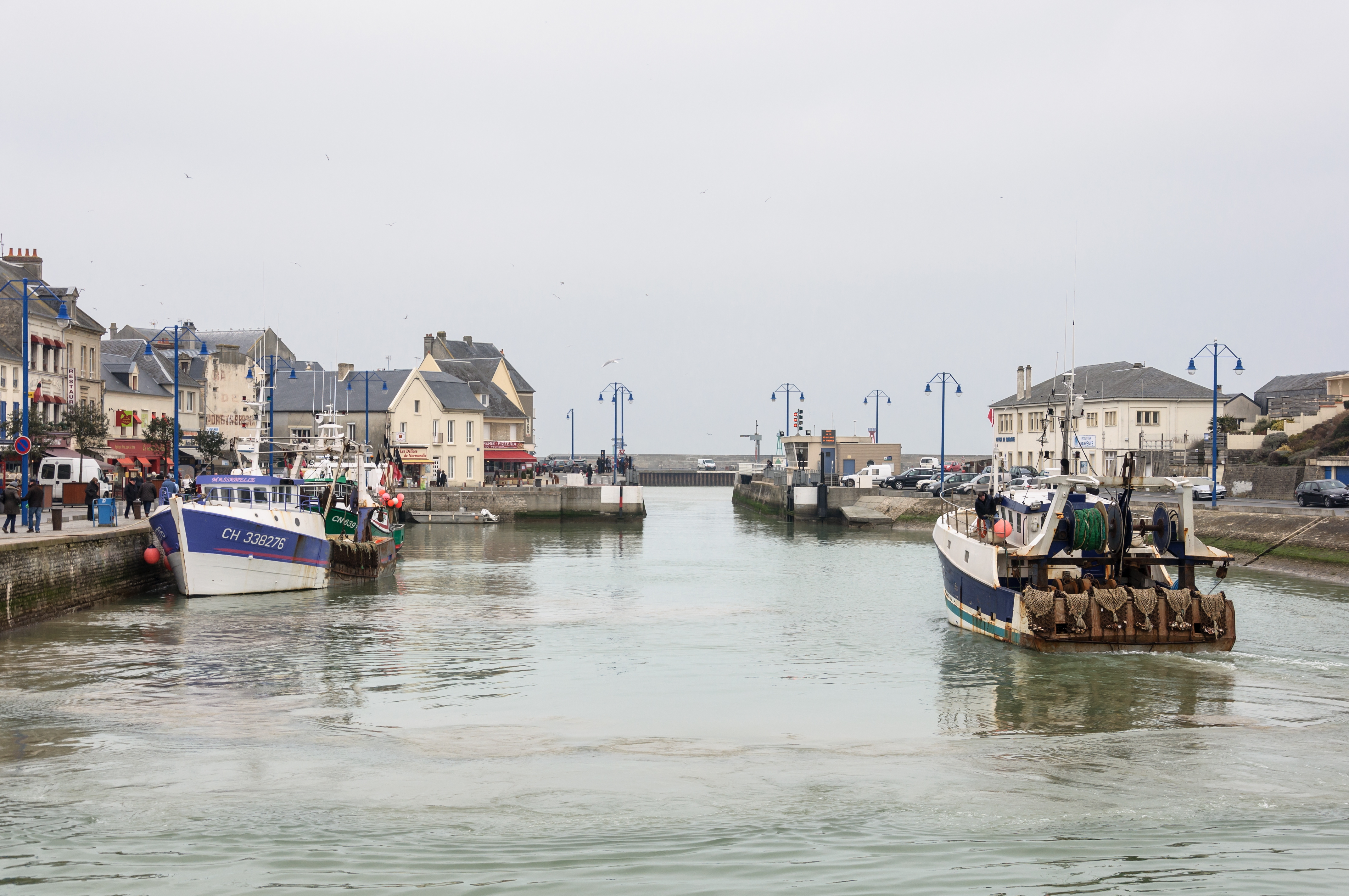 Fishing boats in the channel of the port of Port-en-Bessin-Huppain, Normandy, France)